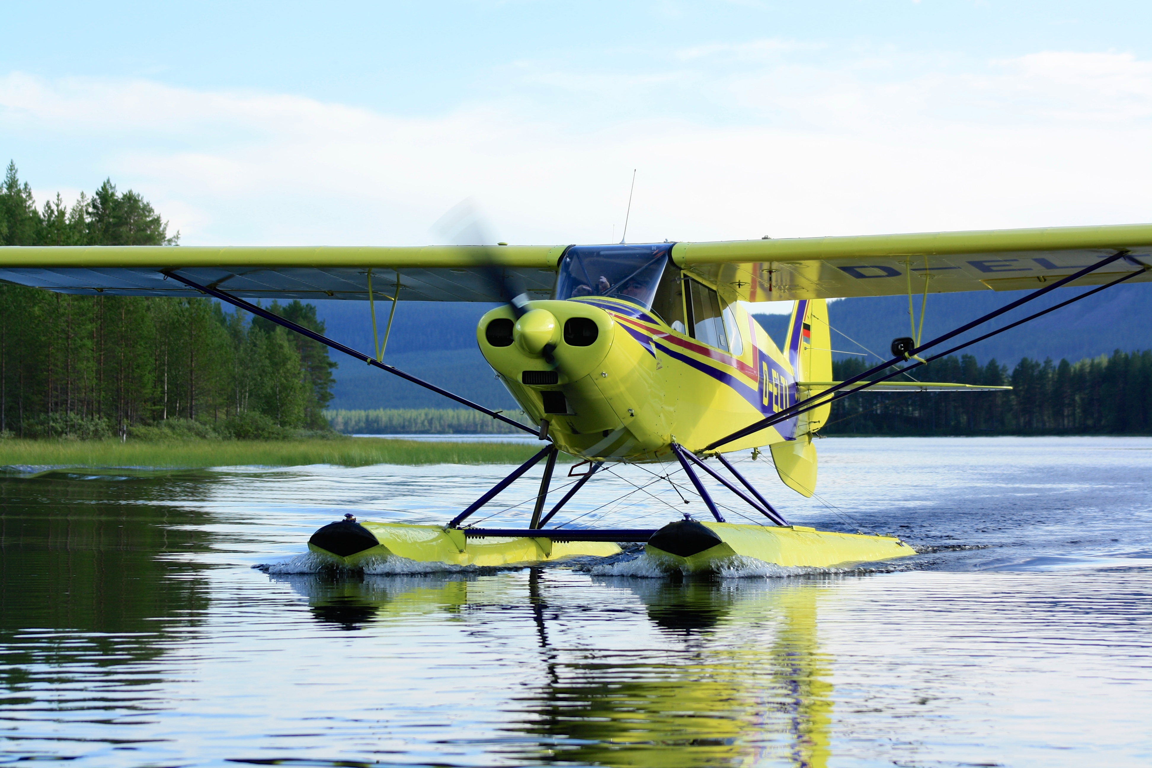 Piper PA-12 Super Cruiser converted to floats seen on the Stavsjön lake in Sweden